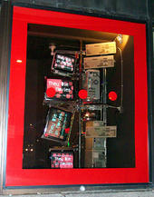 The window display at (SCENE) Metrospace's old location in downtown East Lansing. Installation by Cody Lee Hinze